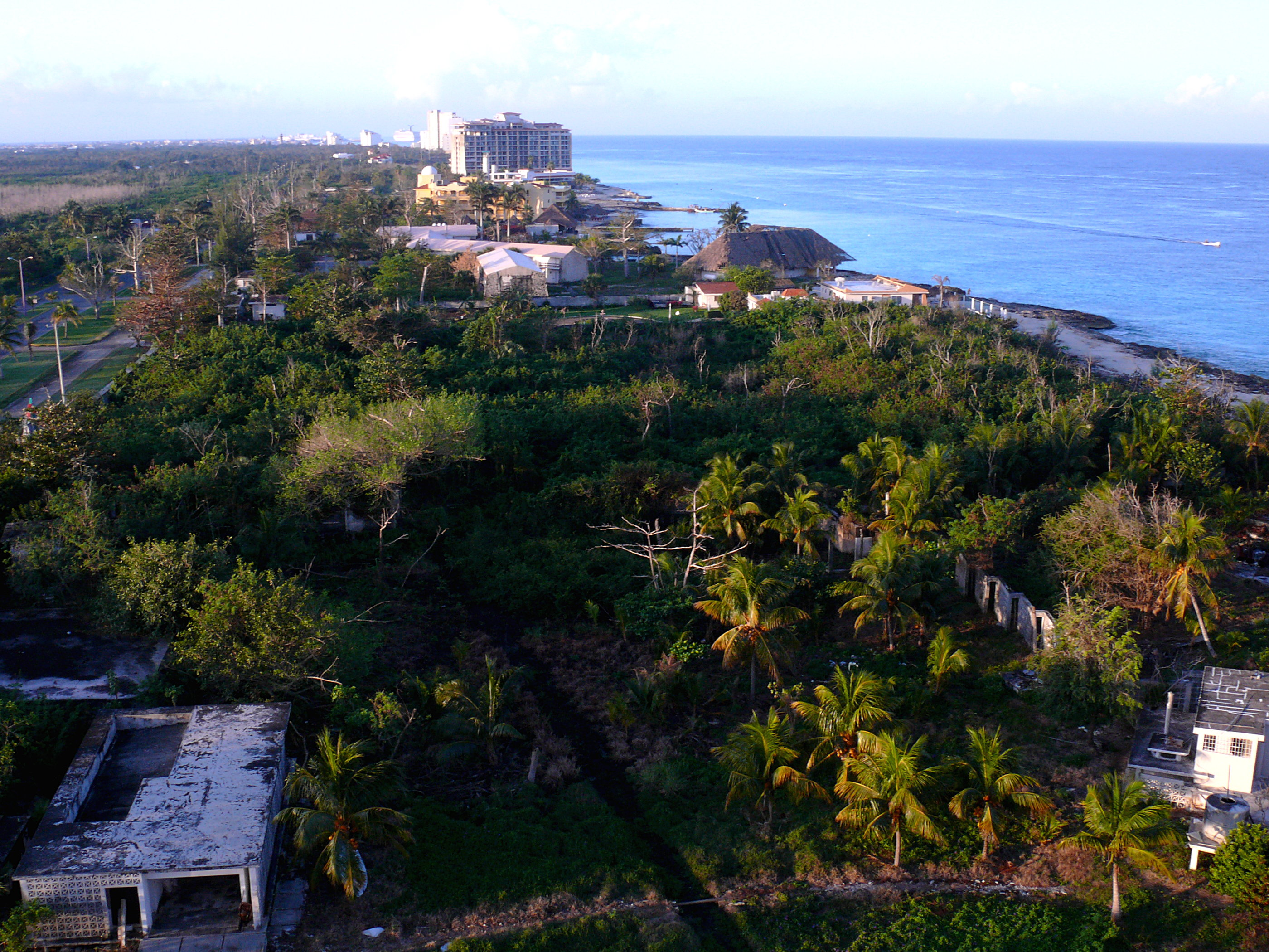 Looking south towards the town of San Miguel from the 9th floor balcony of the El Cozumeleño resort. Though much of the island has been repaired since Hurricane Wilma hit in October of 2005, you can still see many destroyed and abandoned structures scattered between the resorts and hotels.Photo taken with a Panasonic Lumix DMC-FZ50 in Quintana Roo, Mexico.